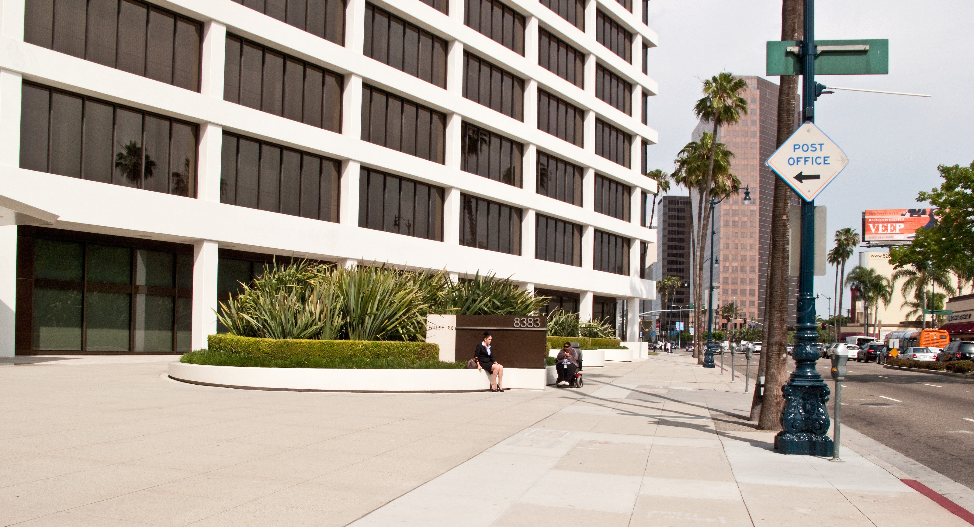 Large office building on the eastern edge of Beverly Hills, California.